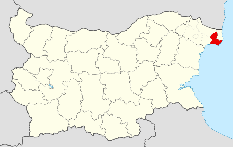 Location map of Kavarna Municipality within Bulgaria and Dobrich Province. Equirectangular projection, N/S stretching 130 %. Geographic limits of the map: N: 44.4° N S: 41.1° N W: 22.1° E E: 28.9° E